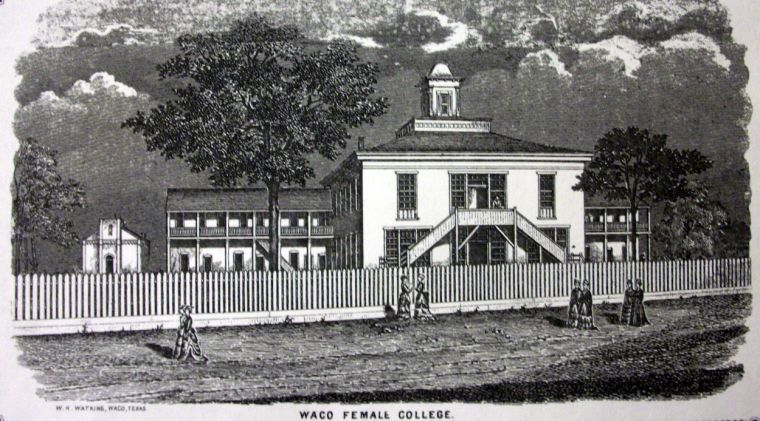 Waco Female College, at its location until approximately 1892, contemporary newspaper illustration